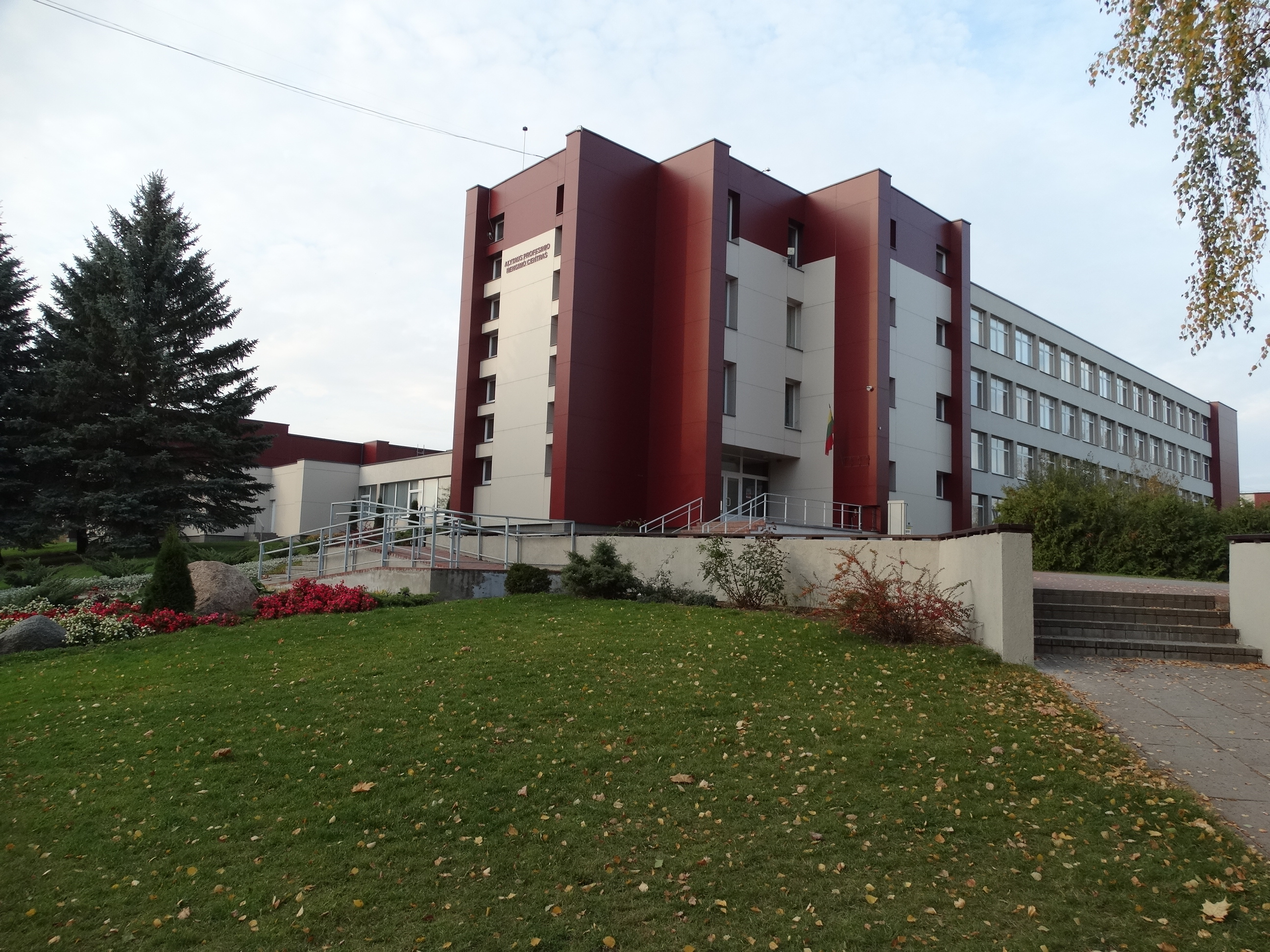 Alytus Vocational Education Centre, Lithuania